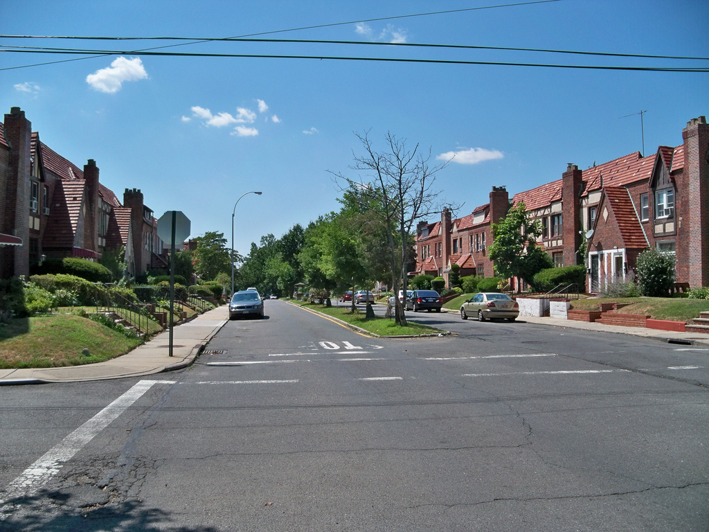 This is what the neighborhood looks like in some parts.